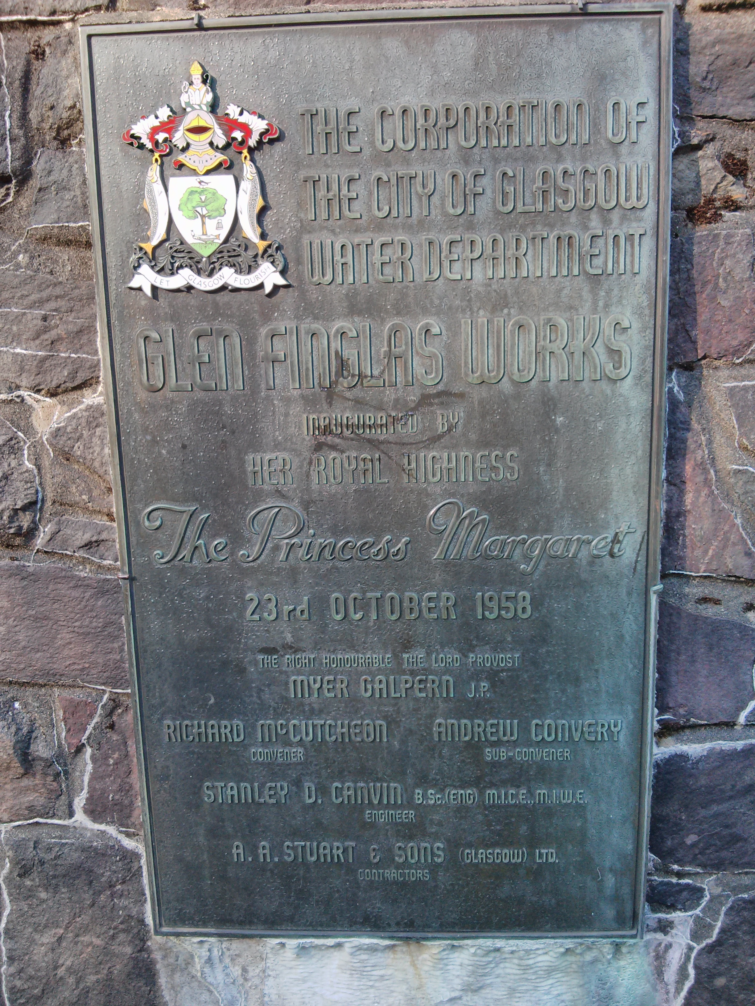 Glen Finglas works were opened in 1958 by Princess Margaret. They were authorised in 1903, but were deferred due to the First World War. Water feeds through a tunnel into Loch Katrine.